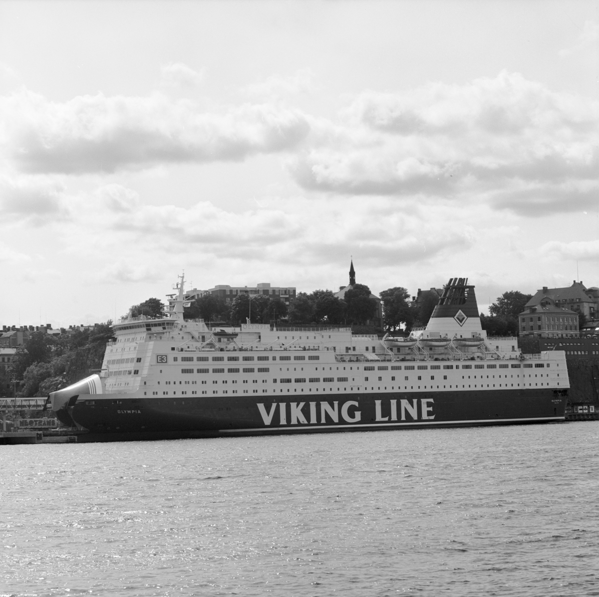 Cruiseferry MS Olympia in Stockholm. Olympia belonged to Viking Line 1986-1993.